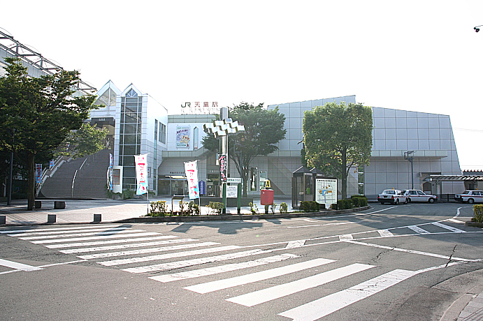 Tendō Station East Entrance (Tendō City, Yamagata Prefecture, Japan.)